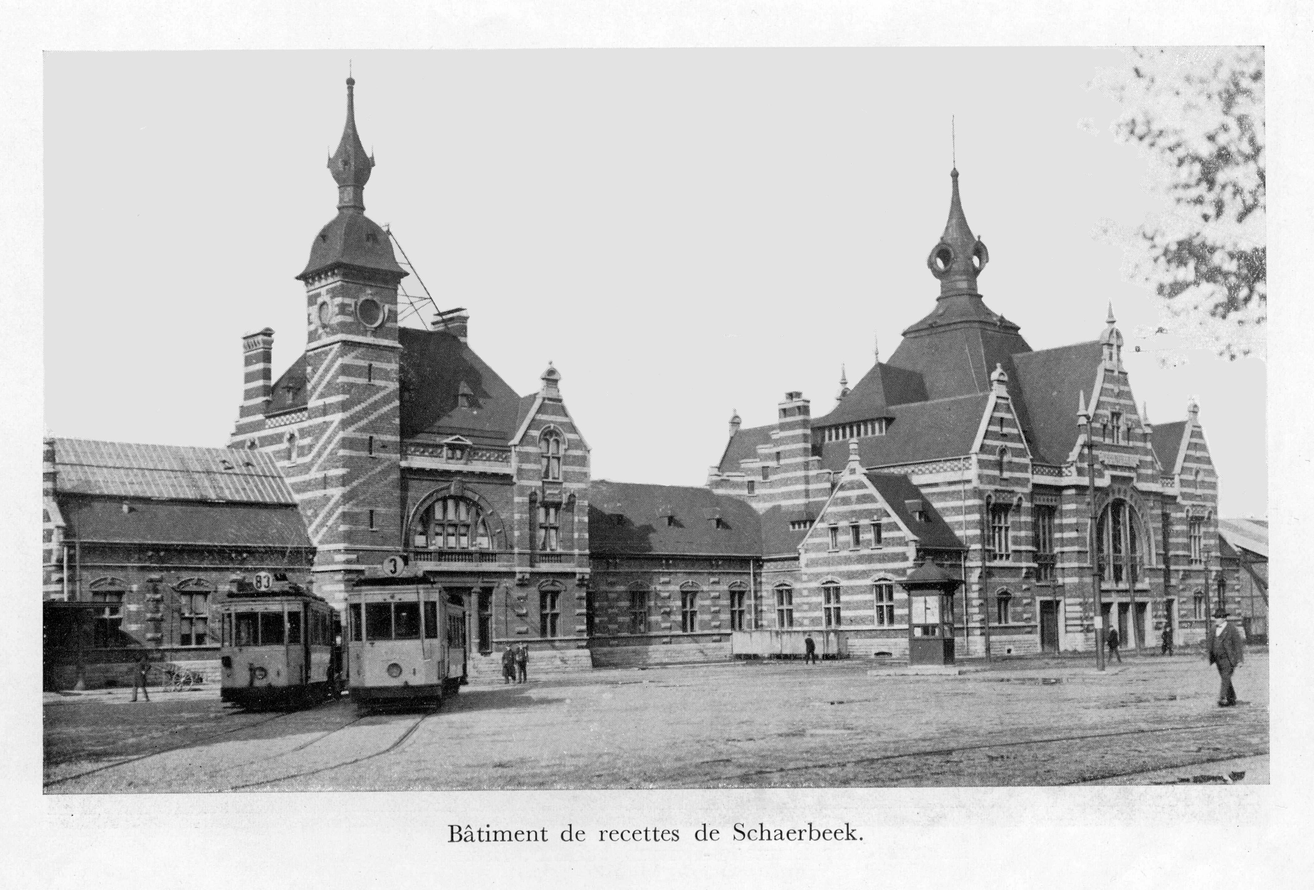 Picture of Schaarbeek station forecourt, with trams 83 and 3 waiting to depart